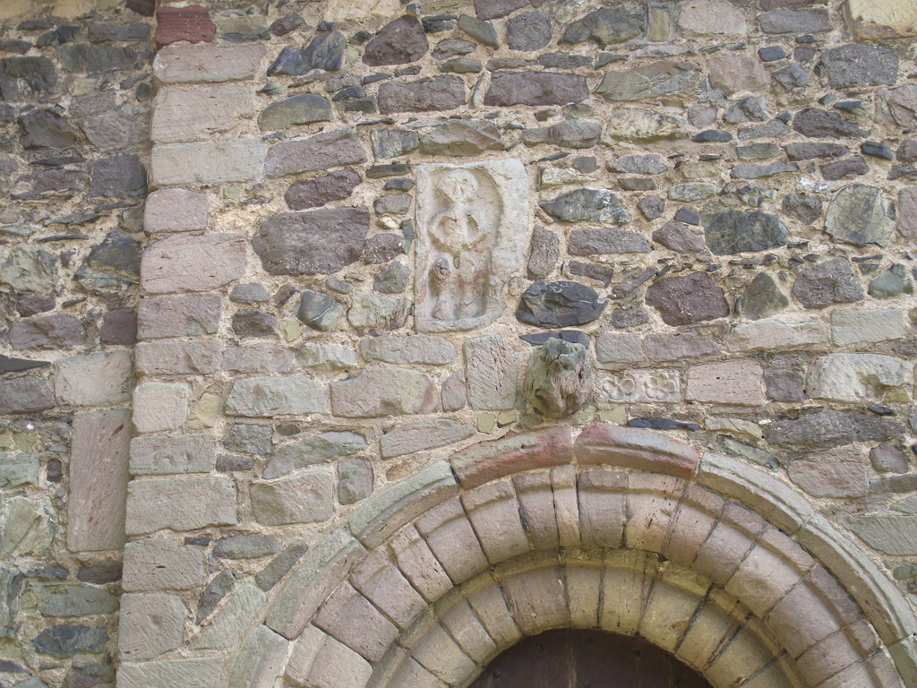 Photograph of the sheila-na-gig, Church Stretton, above the north doorway